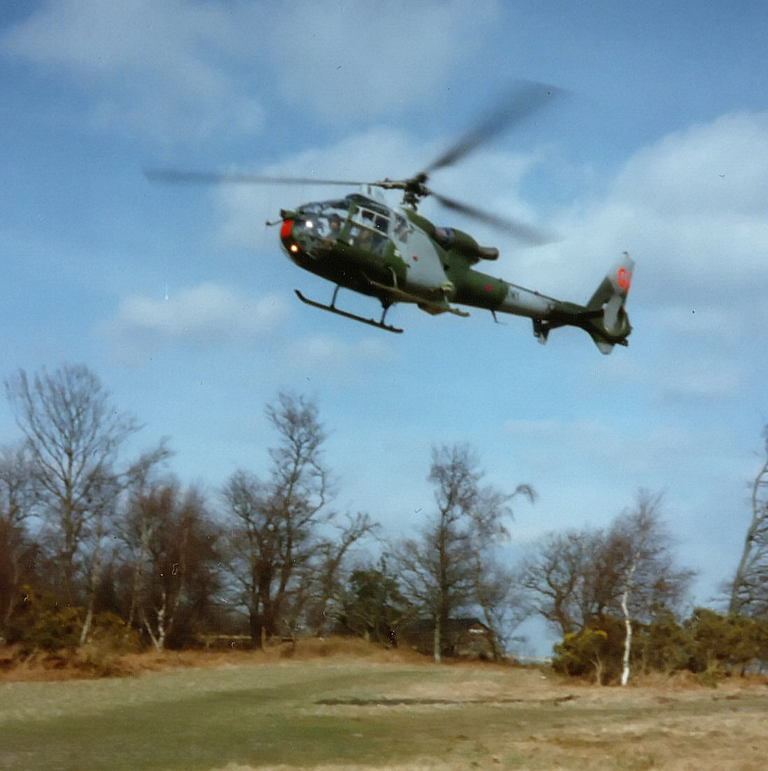 Westland Gazelle helicopter. Contributed by copyright holder.